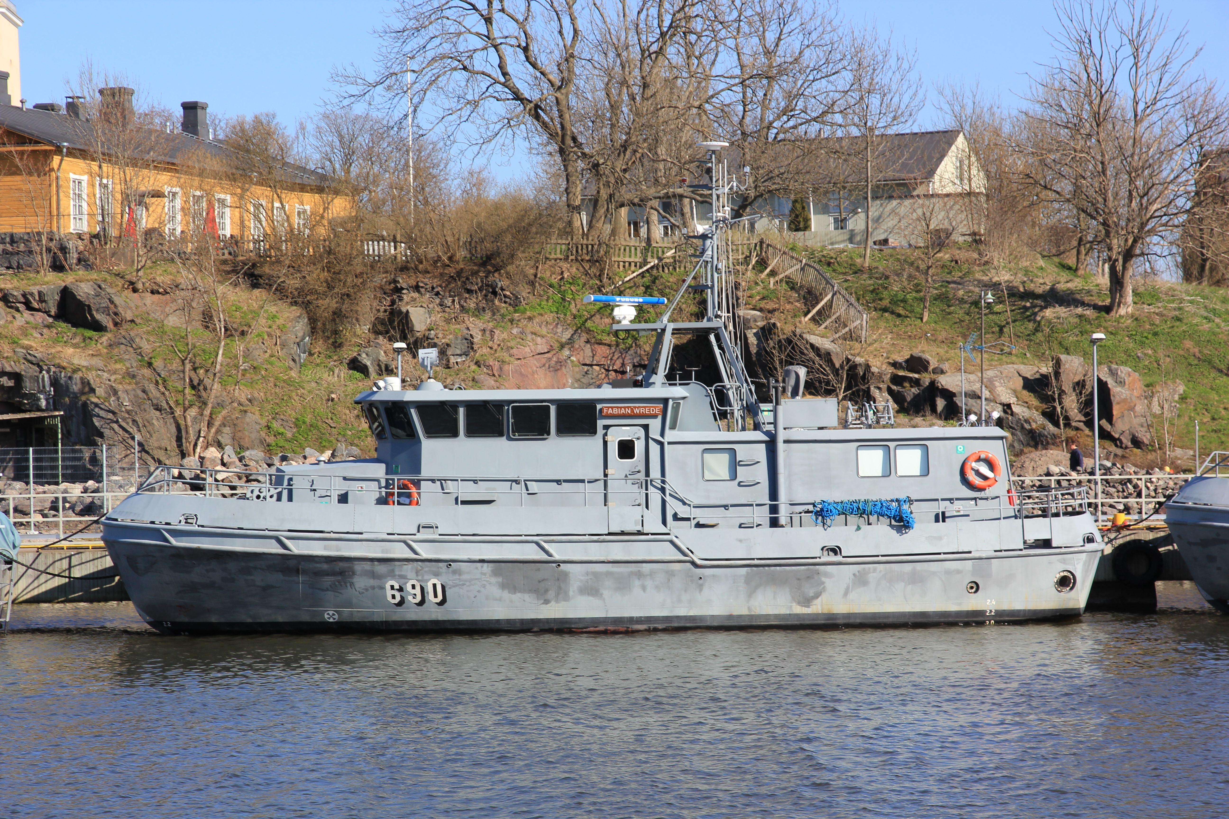 Finnish navy training ship Fabian Wrede (690) in Suomenlinna.